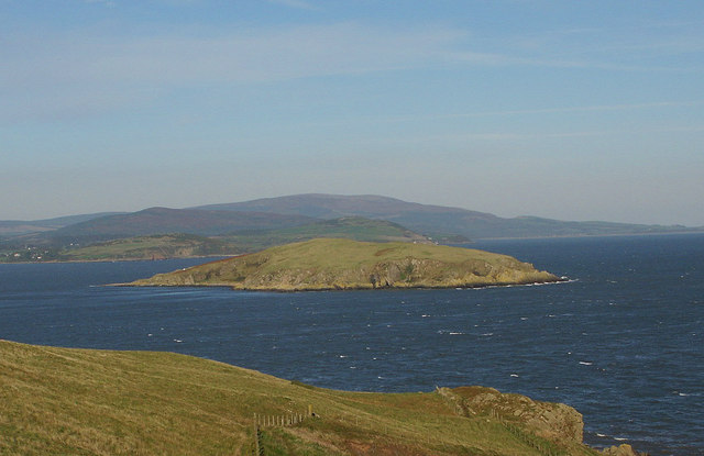 Hestan Island and Auchencairn Bay The viewpoint is near Balcary Bay due west of the island. Hestan can be reached on foot over the mud flats when the tide is far enough out.